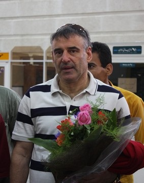 Luka Bonačić